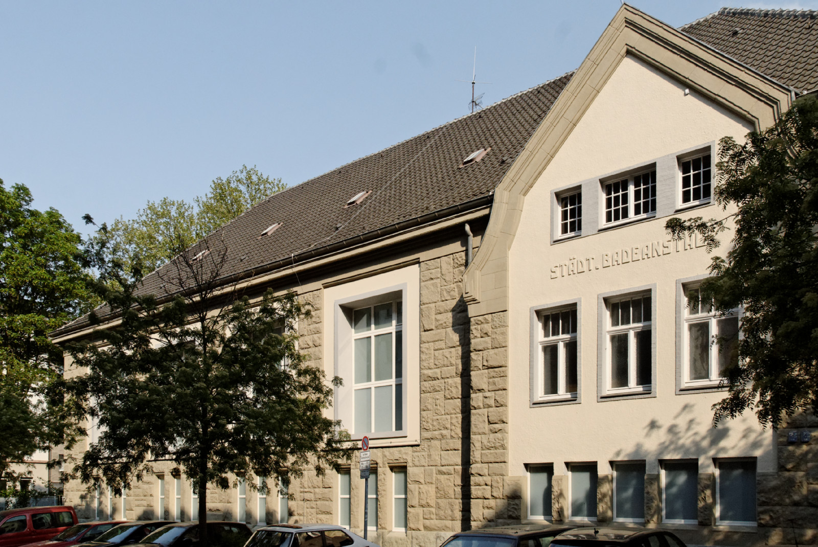 Leo-Statz-Berufskolleg, Friedenstraße 29 in Düsseldorf-Unterbilk, Germany This is a photograph of an architectural monument.